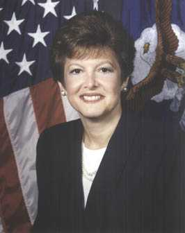 Carol DiBattiste is Under Secretary of the Air Force, Washington, D.C. She is responsible for all actions of the Air Force on behalf of the secretary of the Air Force and is acting secretary in the secretary's absence. In that capacity, she oversees the recruiting, training, and equipping of more than 710,000 people and a budget of approximately $71 billion. DiBattiste has had an extensive career in public service in the departments of Defense and Justice. Prior to being appointed to her current position, DiBattiste was the deputy U.S. attorney for the Southern District of Florida in Miami. Before that, she served as the principal deputy general counsel of the Navy, and was also the director of the Executive Office for United States Attorneys in Washington, D.C., where she oversaw and provided support to the 94 offices of the United States Attorneys. DiBattiste has also been the director of the Office of Legal Education for the Department of Justice and an assistant U.S. attorney prosecuting felonies involving predominantly narcotics cases. In 1971, she enlisted in the Air Force serving five years as an accounting and finance specialist and recruiter. In 1976, DiBattiste was commissioned after completing Officer Training School. She served as an operations officer in a recruiting squadron and later as a judge advocate, circuit prosecutor and on the faculty of the Air Force Judge Advocate General School. She achieved the rank of major before retiring from the Air Force in 1991.